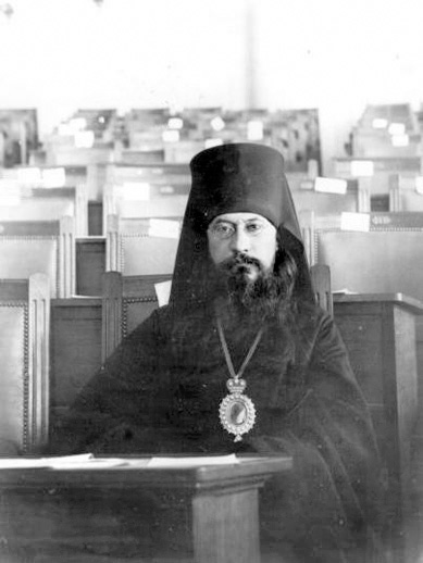 Metropolitan Evlogiy Georgiyevsky